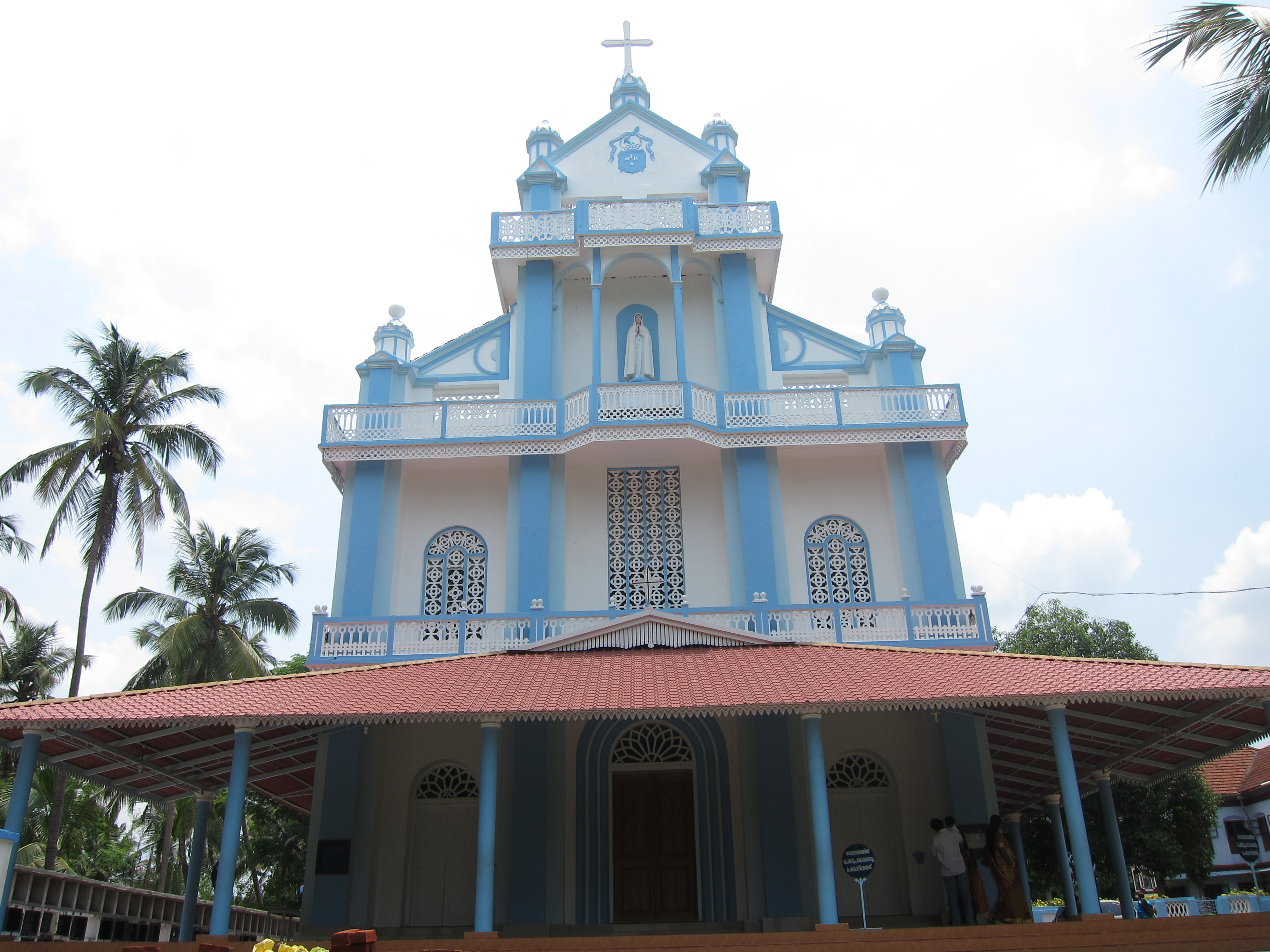 Vimala Hridhaya Naadha Church, Varandarappilly (Coventha Church) Thrissur Diocese, Roman Catholic Syro Malabar Amaballoor-Chimminy Dam Road, Thrissur District